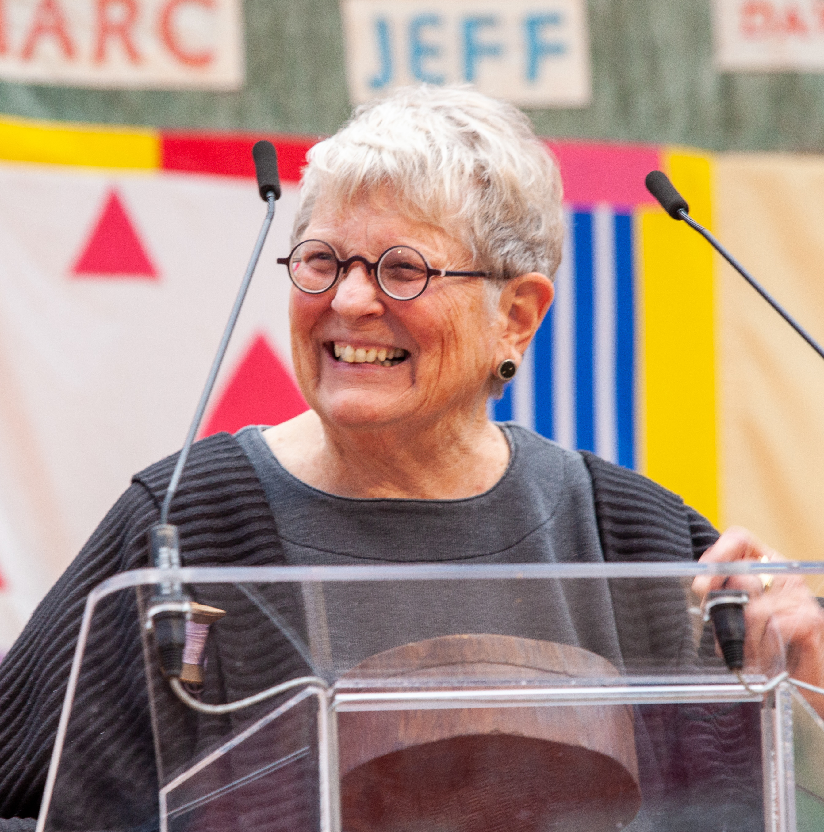 Activist Leslie Ewing speaks at the National AIDS Memorial on World AIDS Day 2019.